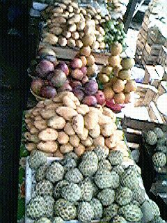 Tropical Mexican fruits.